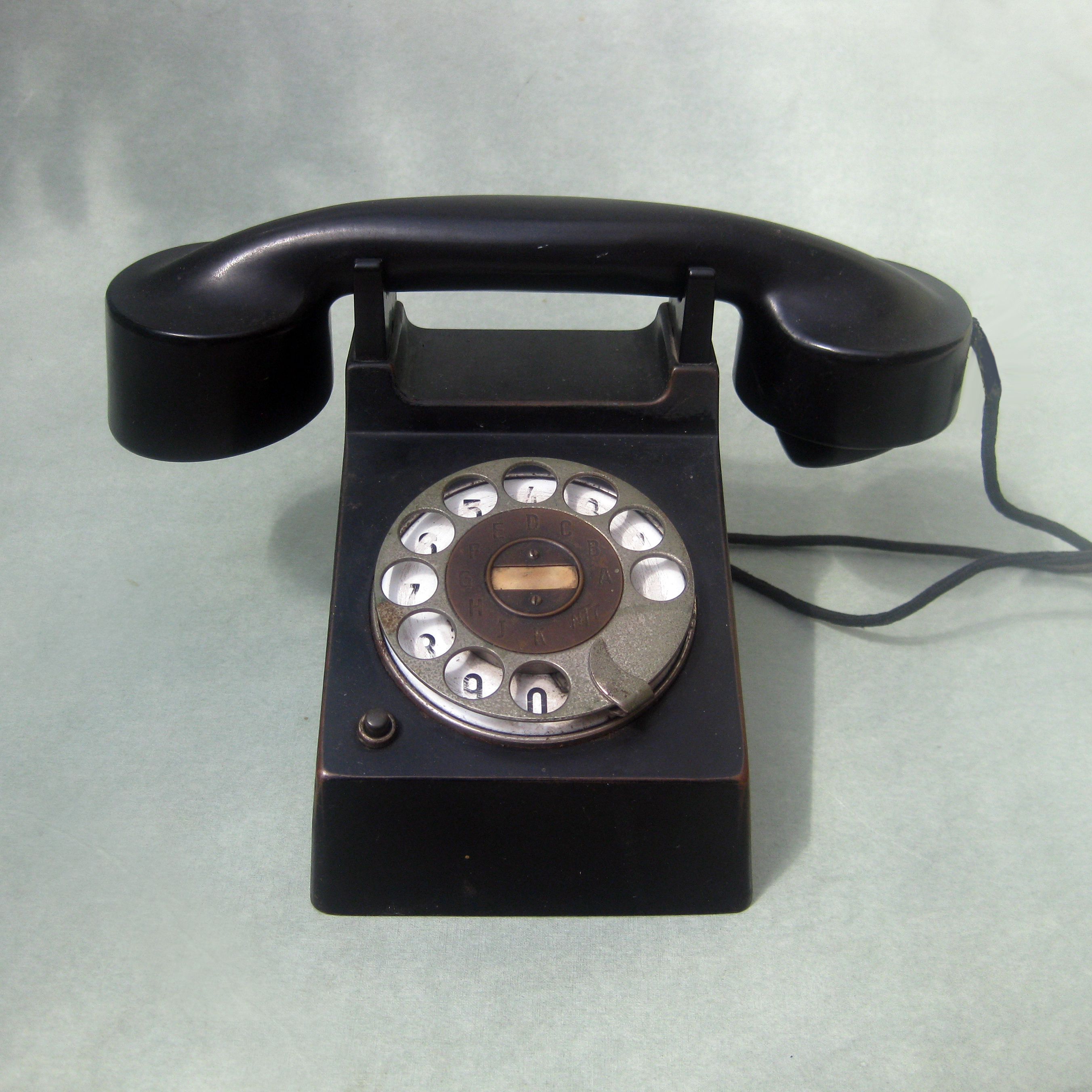 Telephone "Frankfurt" produced by Fuld & Co. Called also the "Bauhaus-telephone". The shell and handset of the phone was designed by Marcel Breuer, the rest propably by Richard Schadewell.